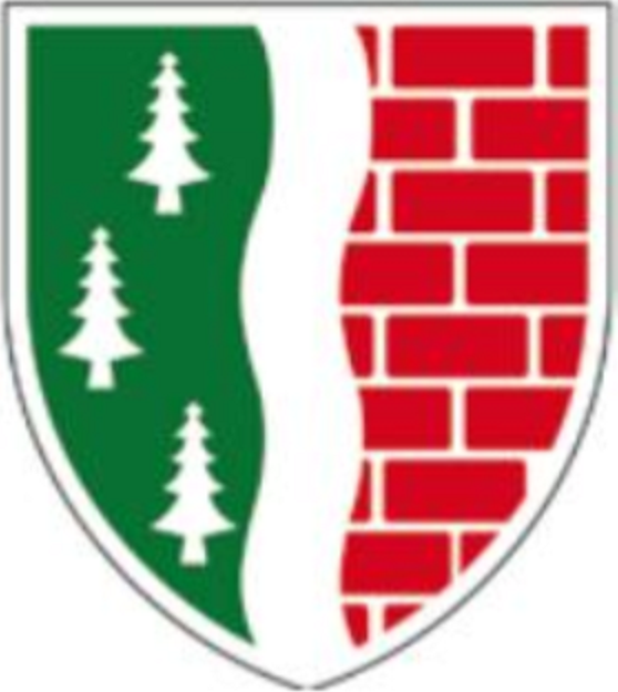 Coat of arms of Tillmitsch, Styria